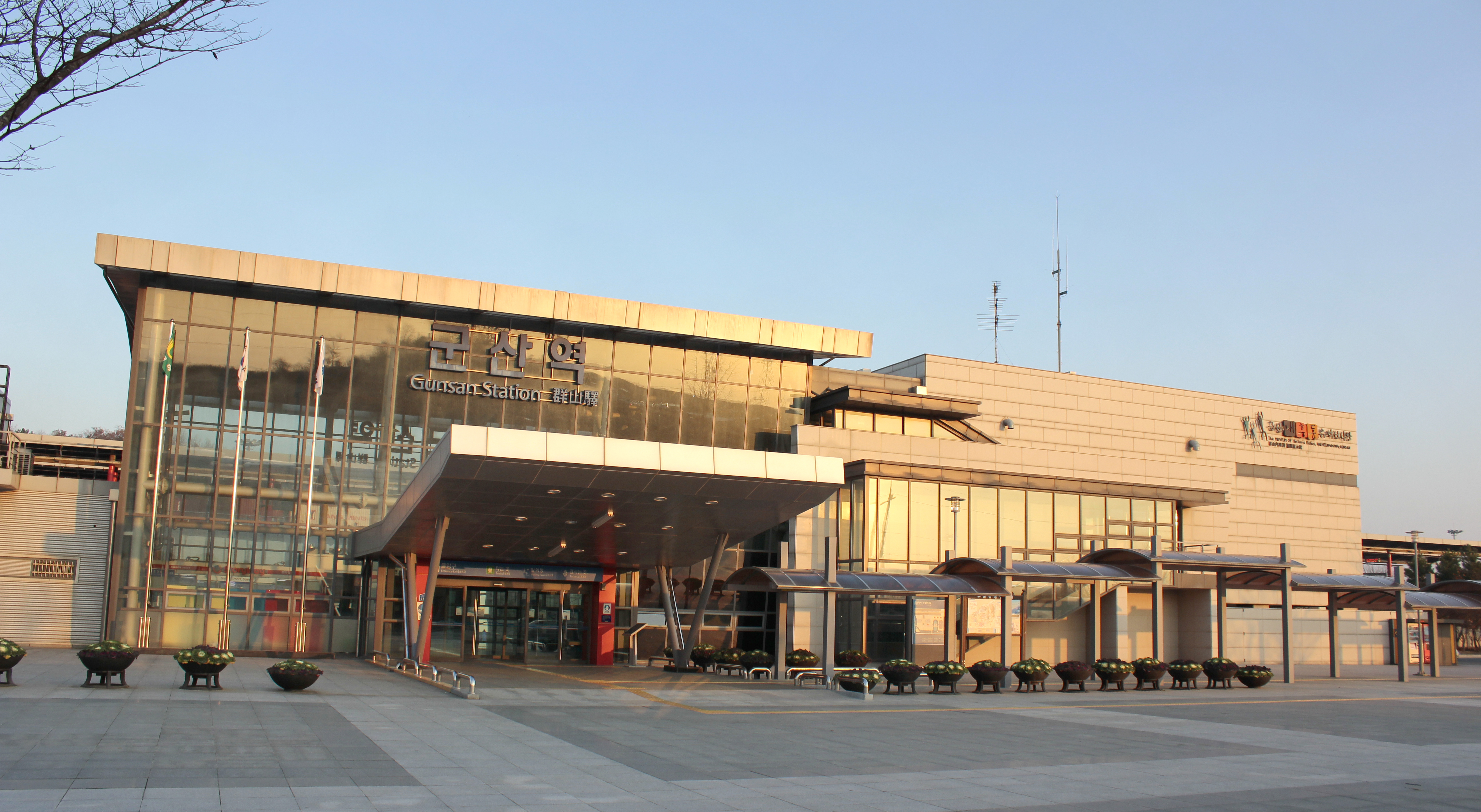 Korail Janghang line Gunsan Station